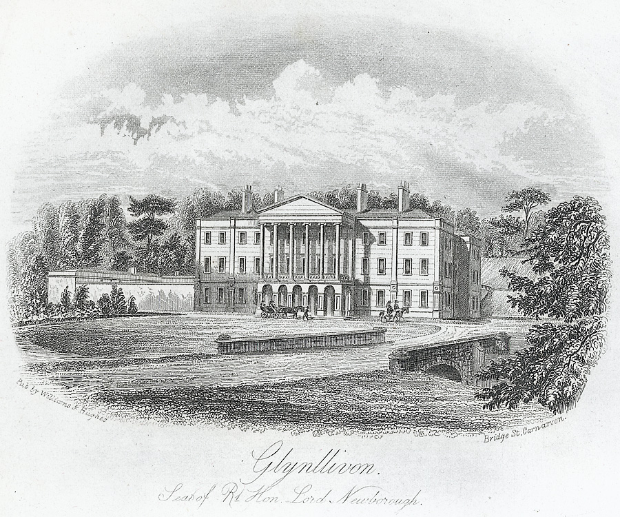 View of the mansion, showing a horse-drawn carriage and a bridge.